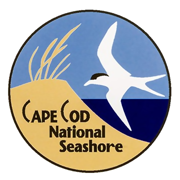 Logo of the Cape Cod National Seashore, a national park operated by the National Park Service under the United States Department of the Interior.